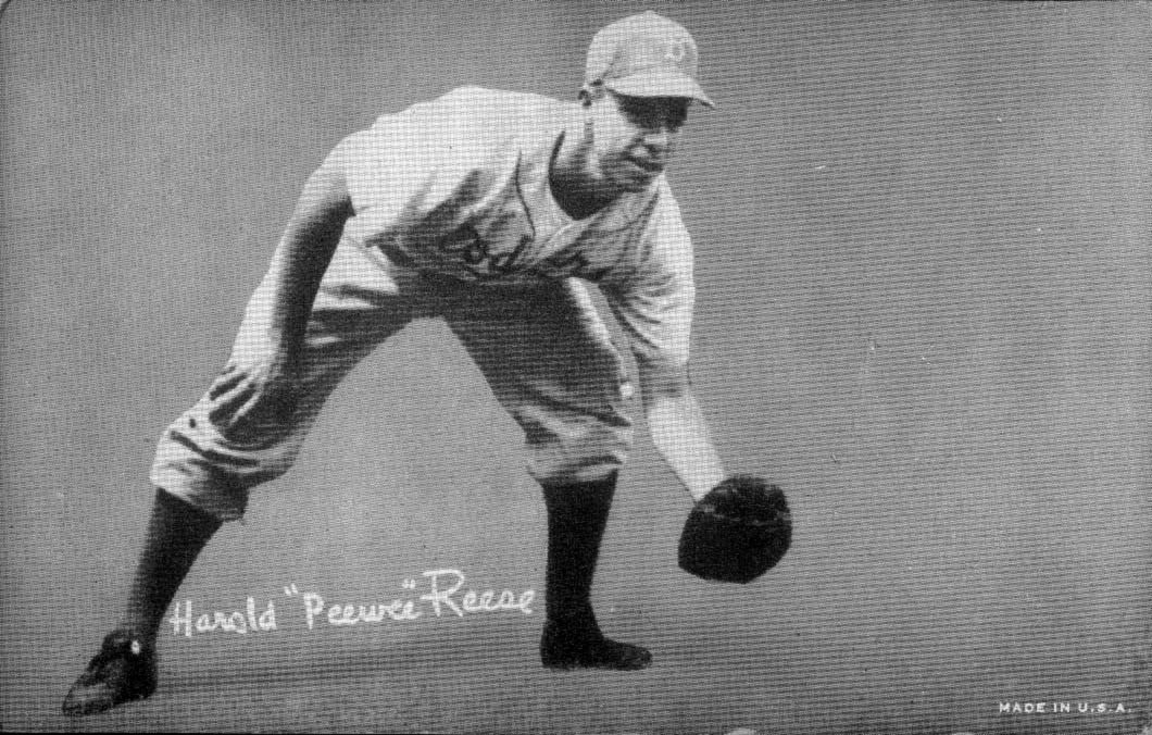 Photo of former LA Dodgers player, Pee Wee Reese.